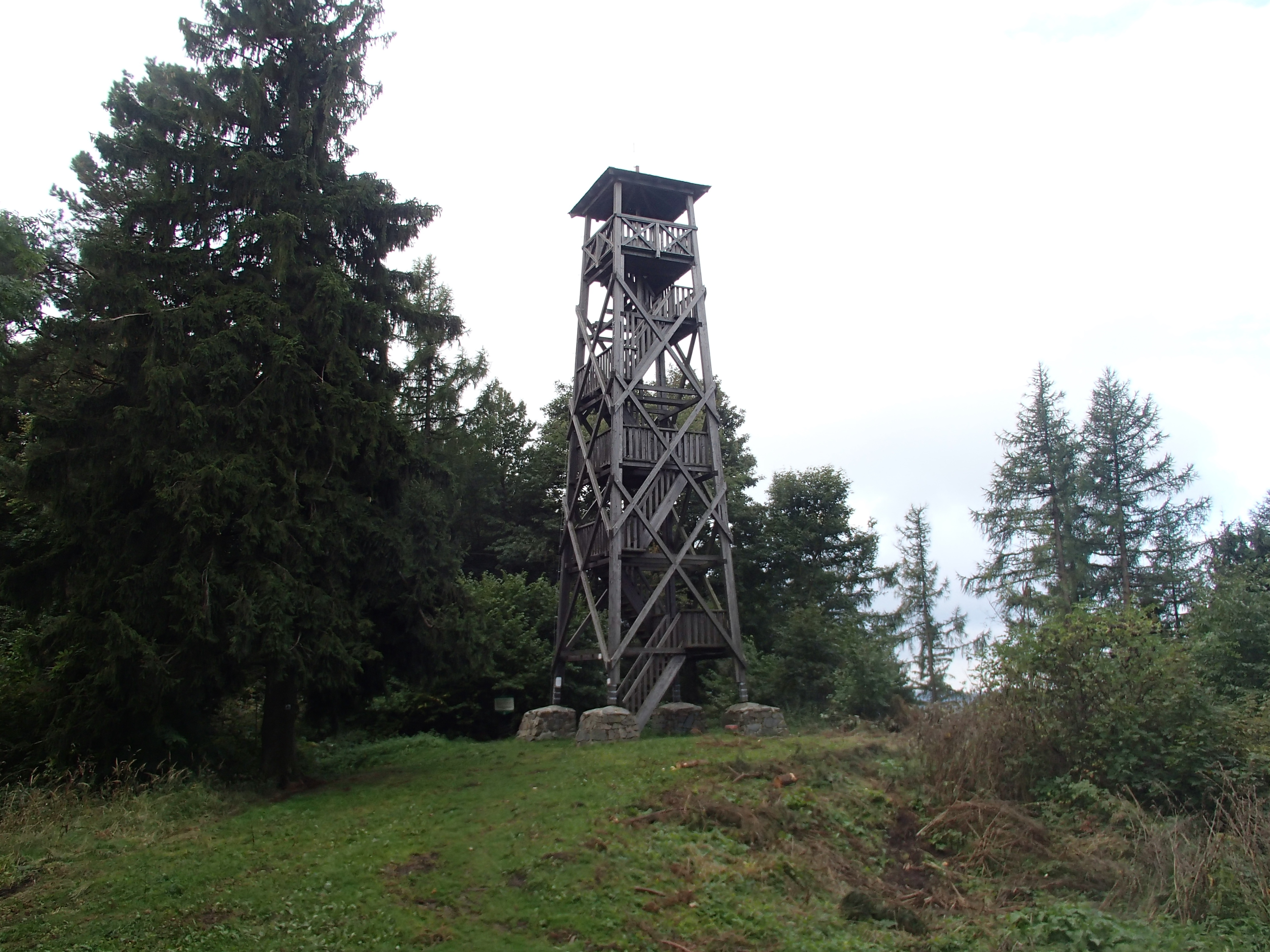 Watchtowe at Velký Roudný